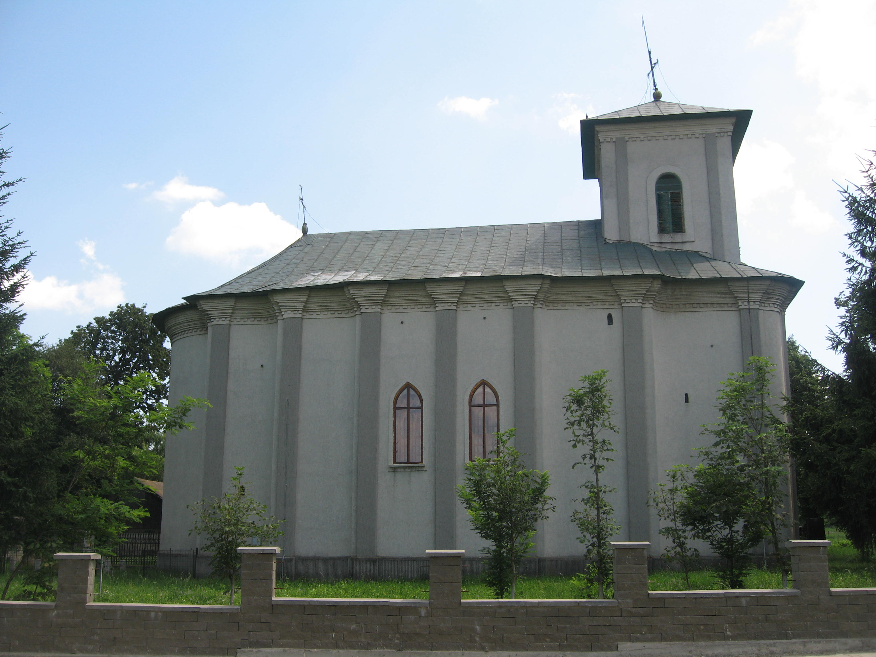 Biserica Balş din Dumbrăveni